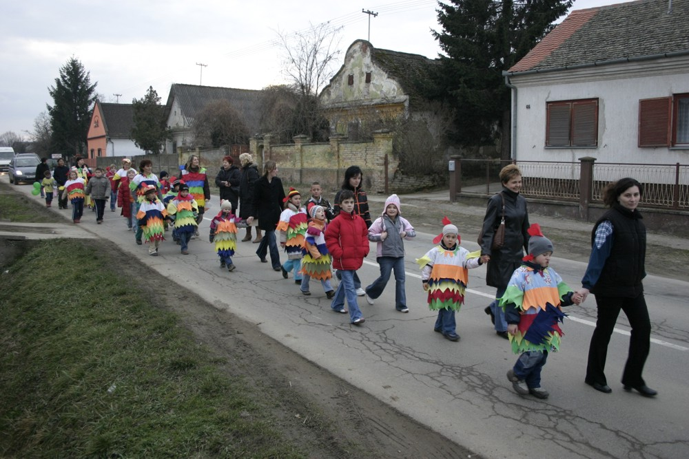 felvonulás